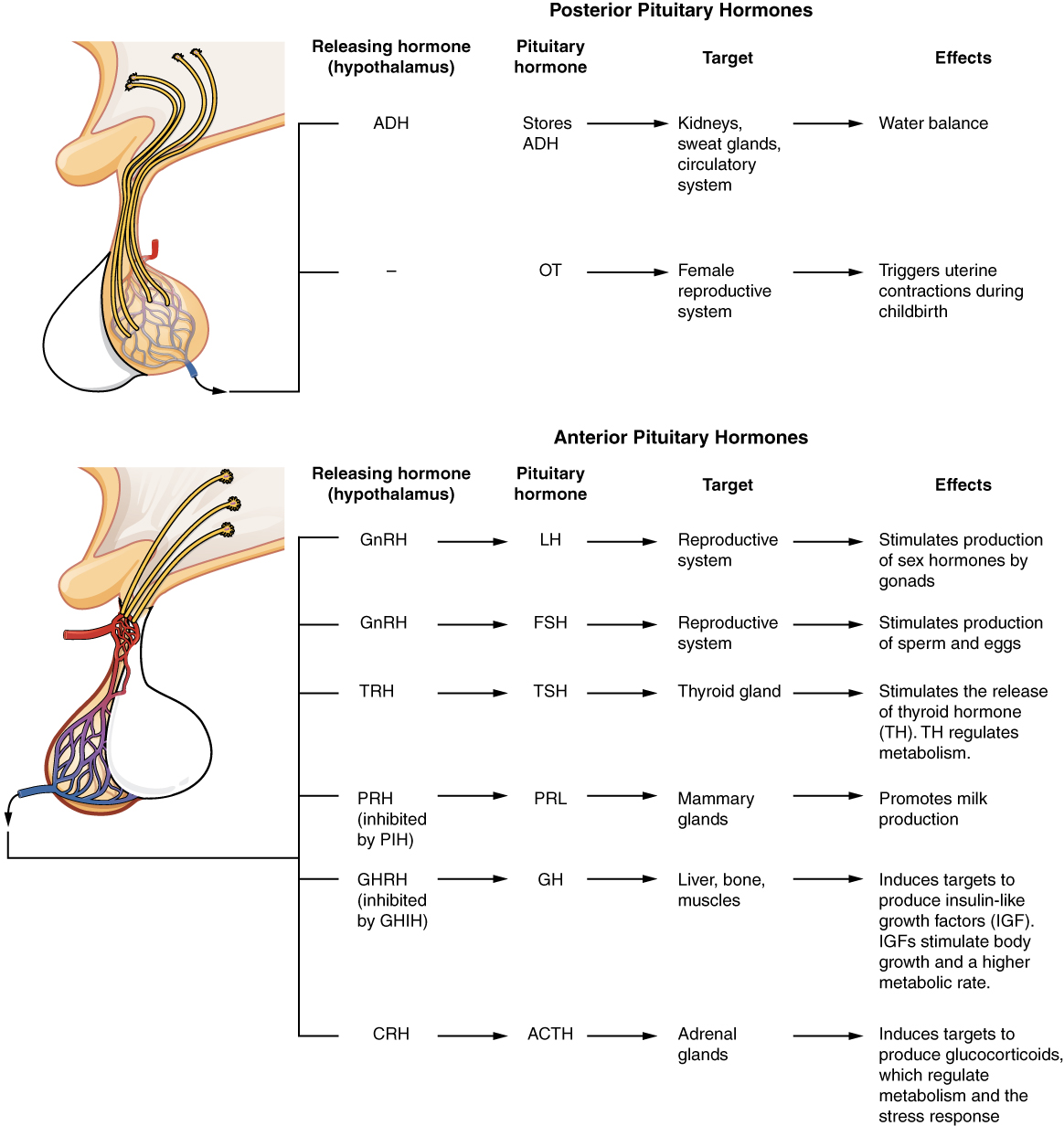 Illustration from Anatomy & Physiology, Connexions Web site. Jun 19, 2013.